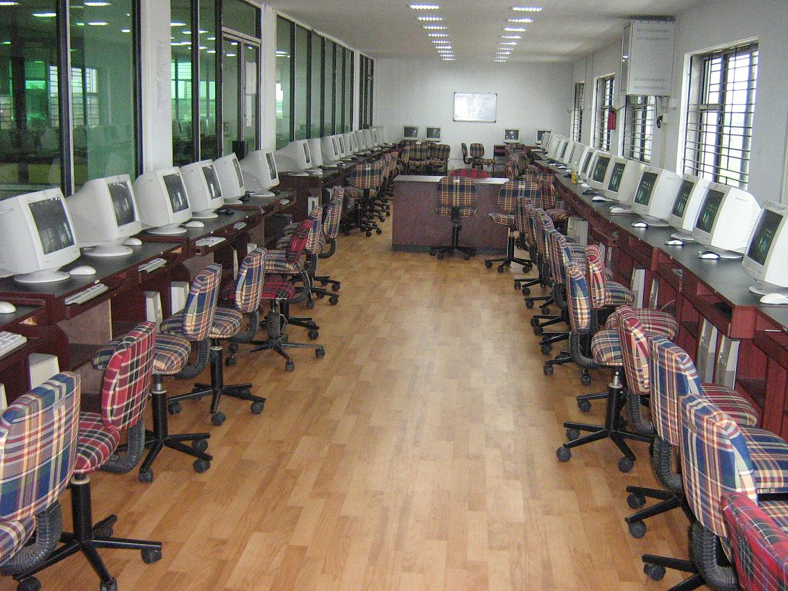 Rear view of lab no. 6, Center for Computation (CSE department)